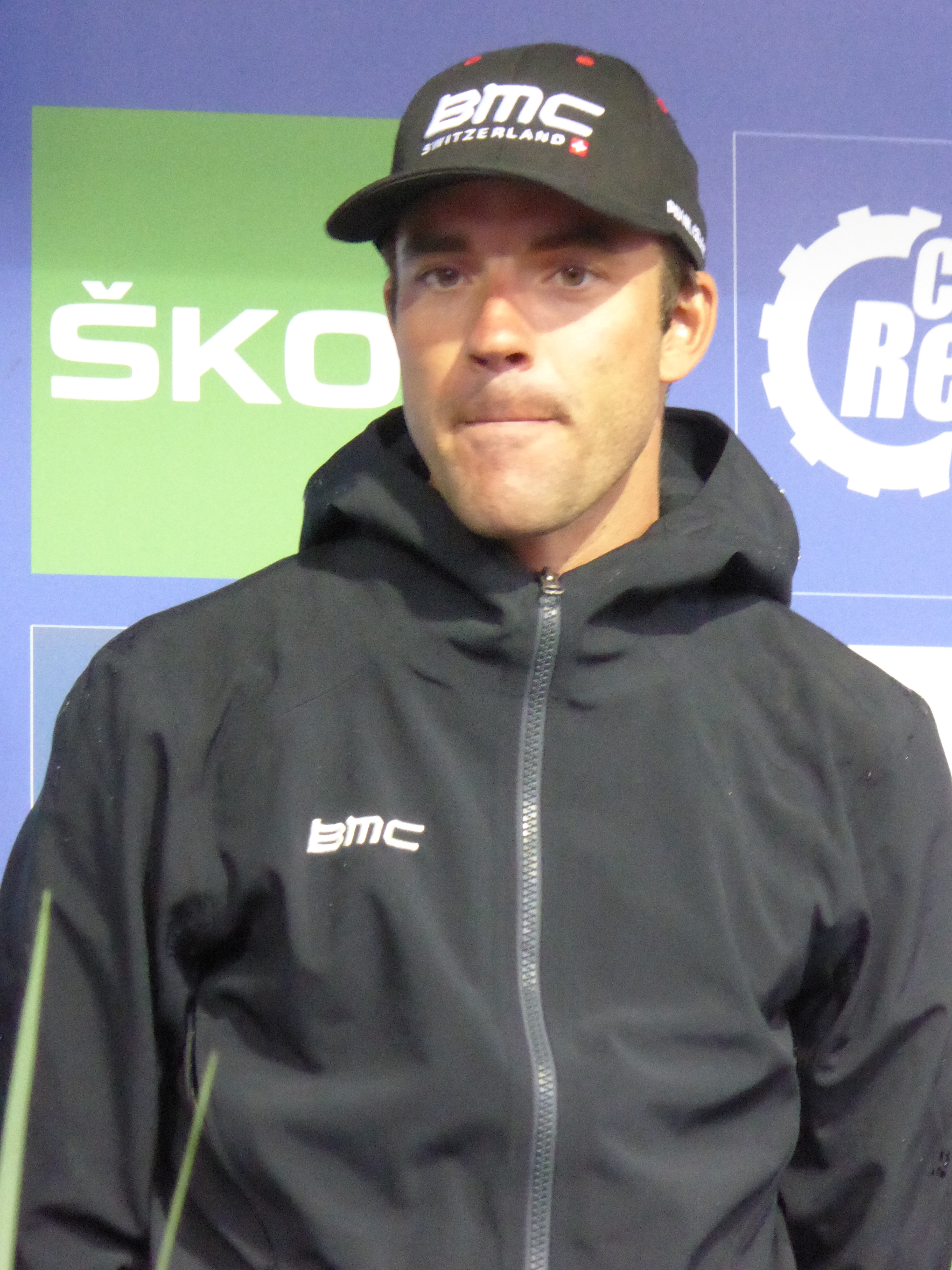 Amaël Moinard (BMC Racing Team), pictured at the 2016 Tour of Britain team presentation in Glasgow on 3 September 2016.